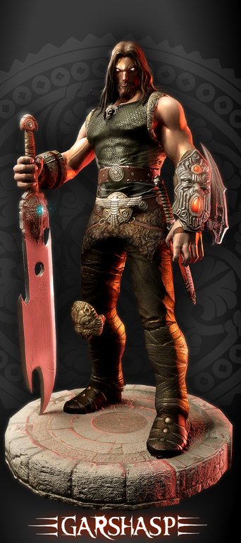 This is Garshasp, the eponymous main character of a 2010 video game.